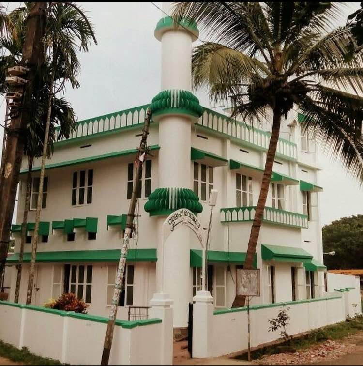 The Salafi Mosque in Mudappallur, Kerala